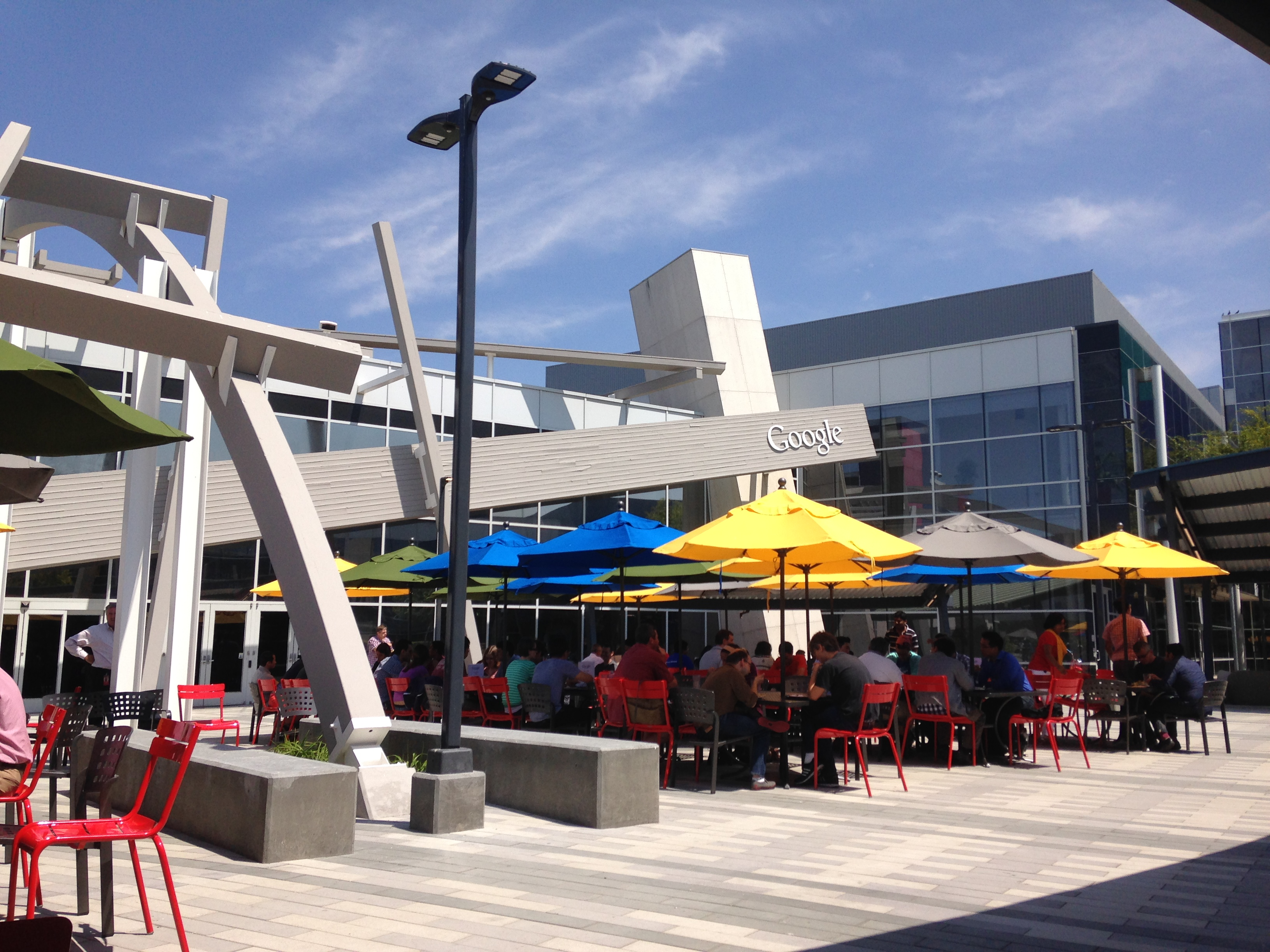 A view of the Google logo, from the patio area of Googleplex, between buildings 40 and 43.